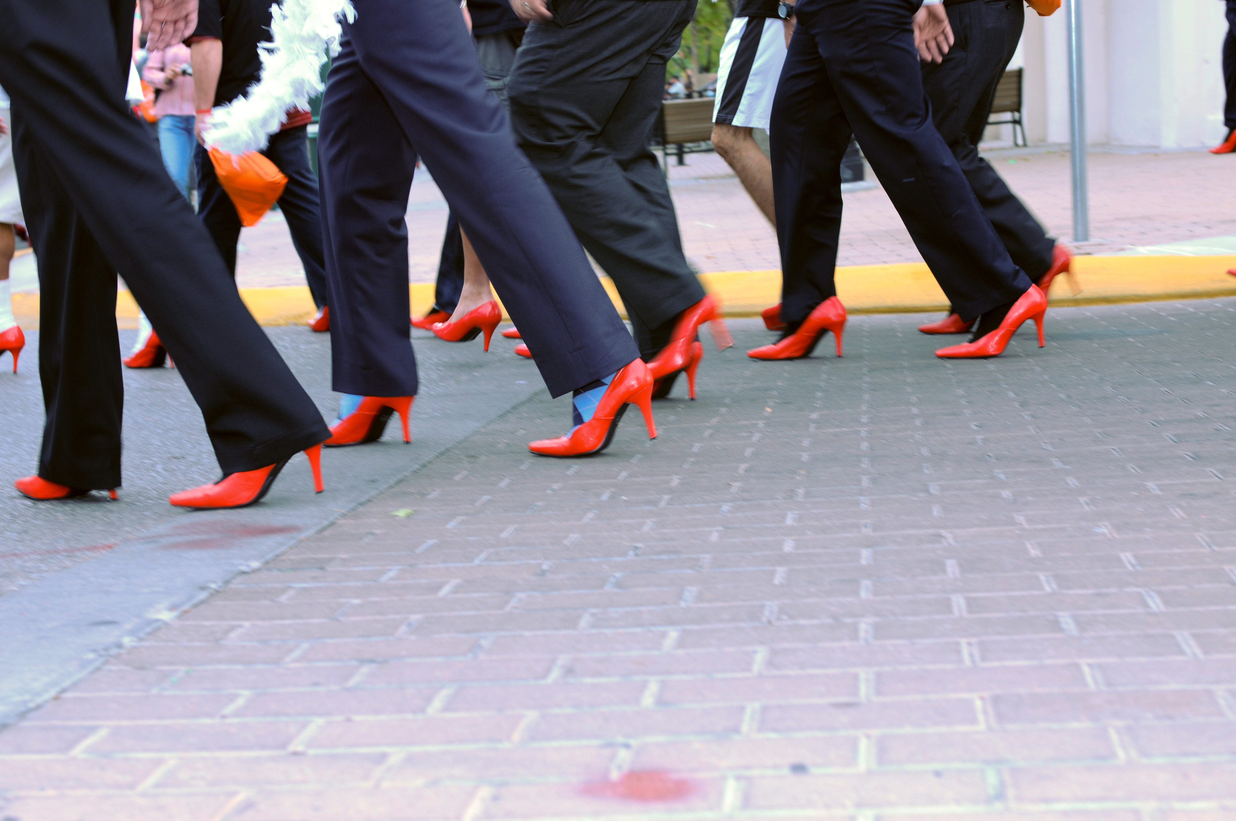 Men in red high-heel shoes march along the streets of El Paso, Oct. 16, 2012, to support the Young Women’s Christian Association’s Walk a Mile in Her Shoes event. The event is held to increase awareness of violence against women and to raise funds for the YWCA’s Independence House that provides shelter for women and children who are victims of domestic violence.